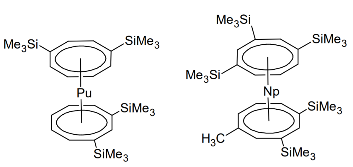 trimethylsilane substituted cyclooctatetraene complexes with Np and Pu